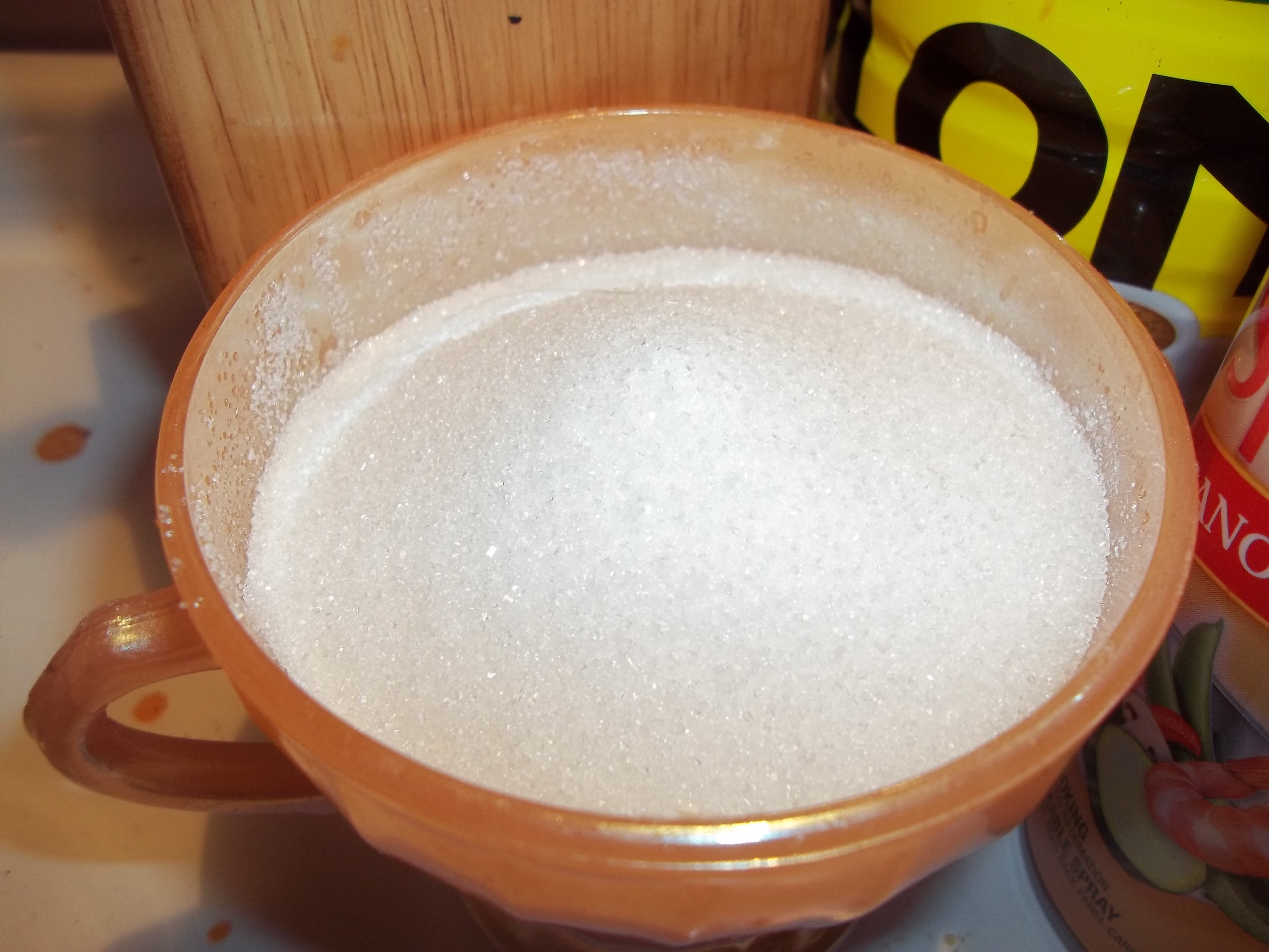 A bowl filled with sugar